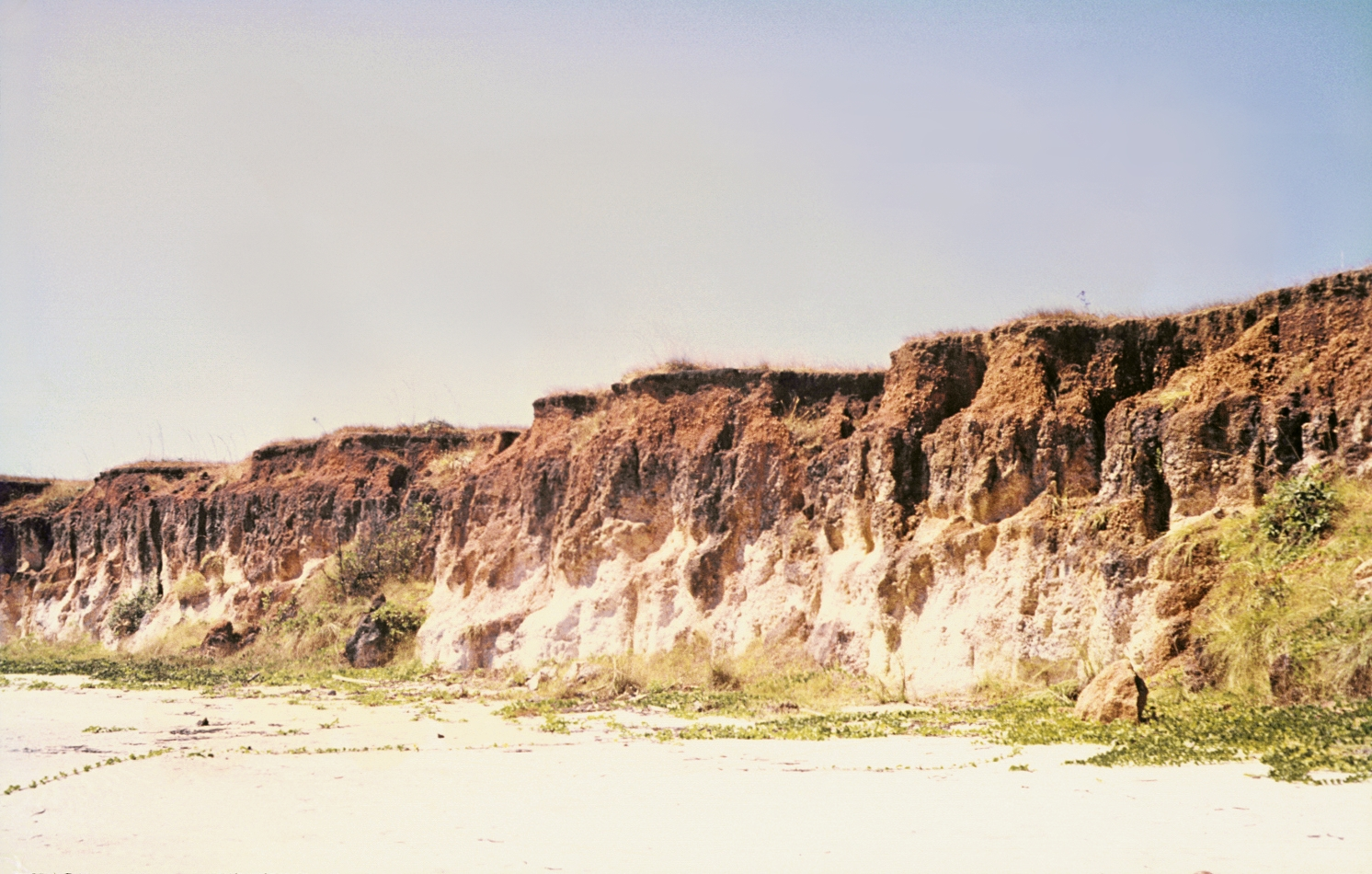 Bauxite section on kaolinitic sandstone (white) at Pera Head (detail of photo C 006.jpg). Bauxite deposit Weipa, Australia.